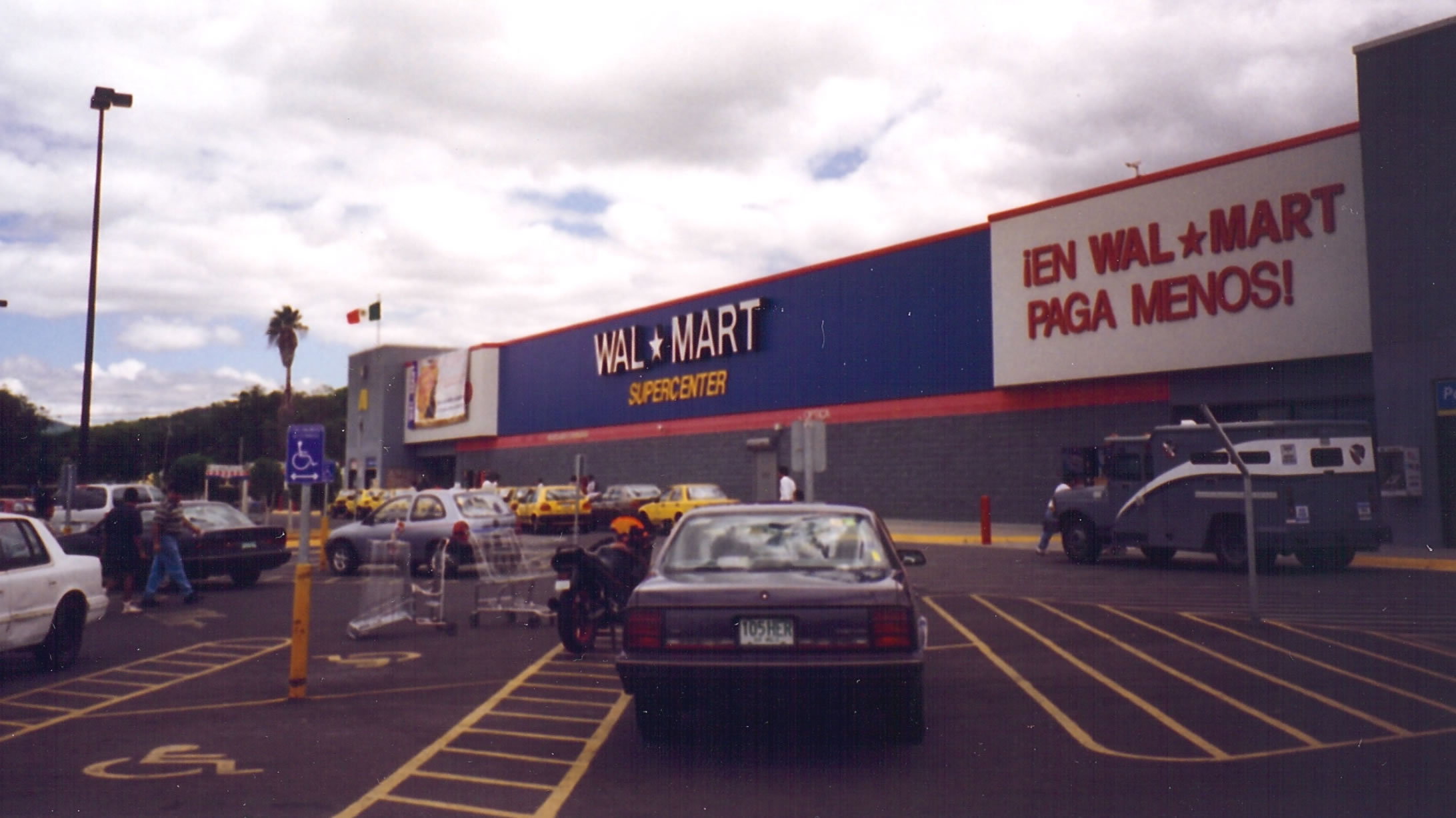 View of a Walmart supercenter in Santiago de Querétaro, Mexico. There is a sign that reads, roughly translated, "At Wal-Mart, pay less!"